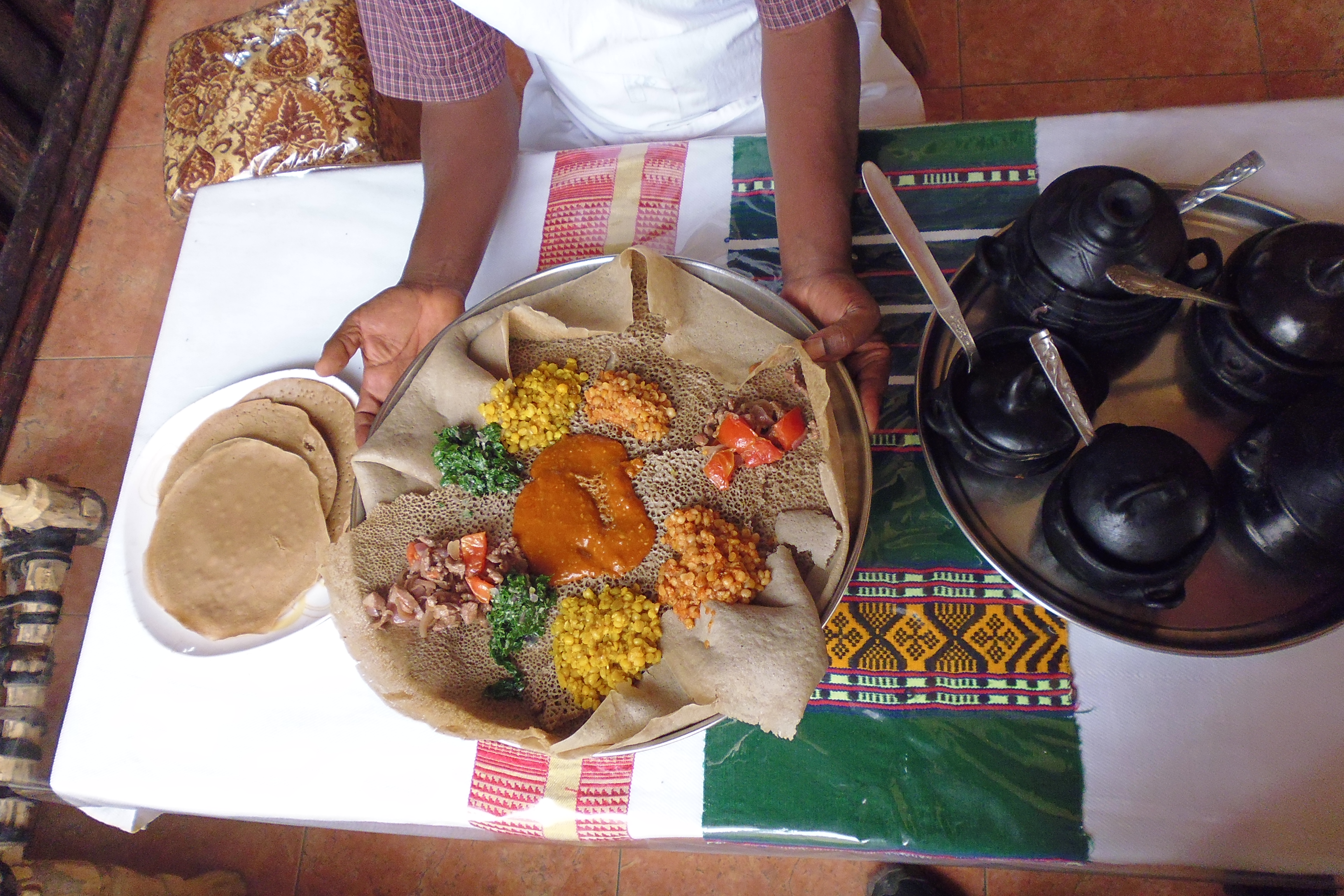 This is an image of food from Ethiopia